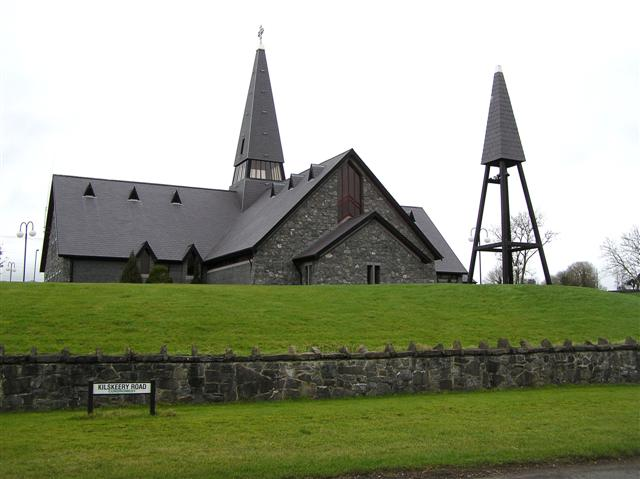 St McCartan's RC Church, Trillick It is located to the west of the village